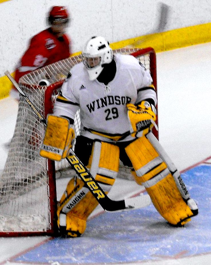 Parker Van Buskirk, Windsor Lancers - Photo taken by Devan Mighton of CIS men's hockey.